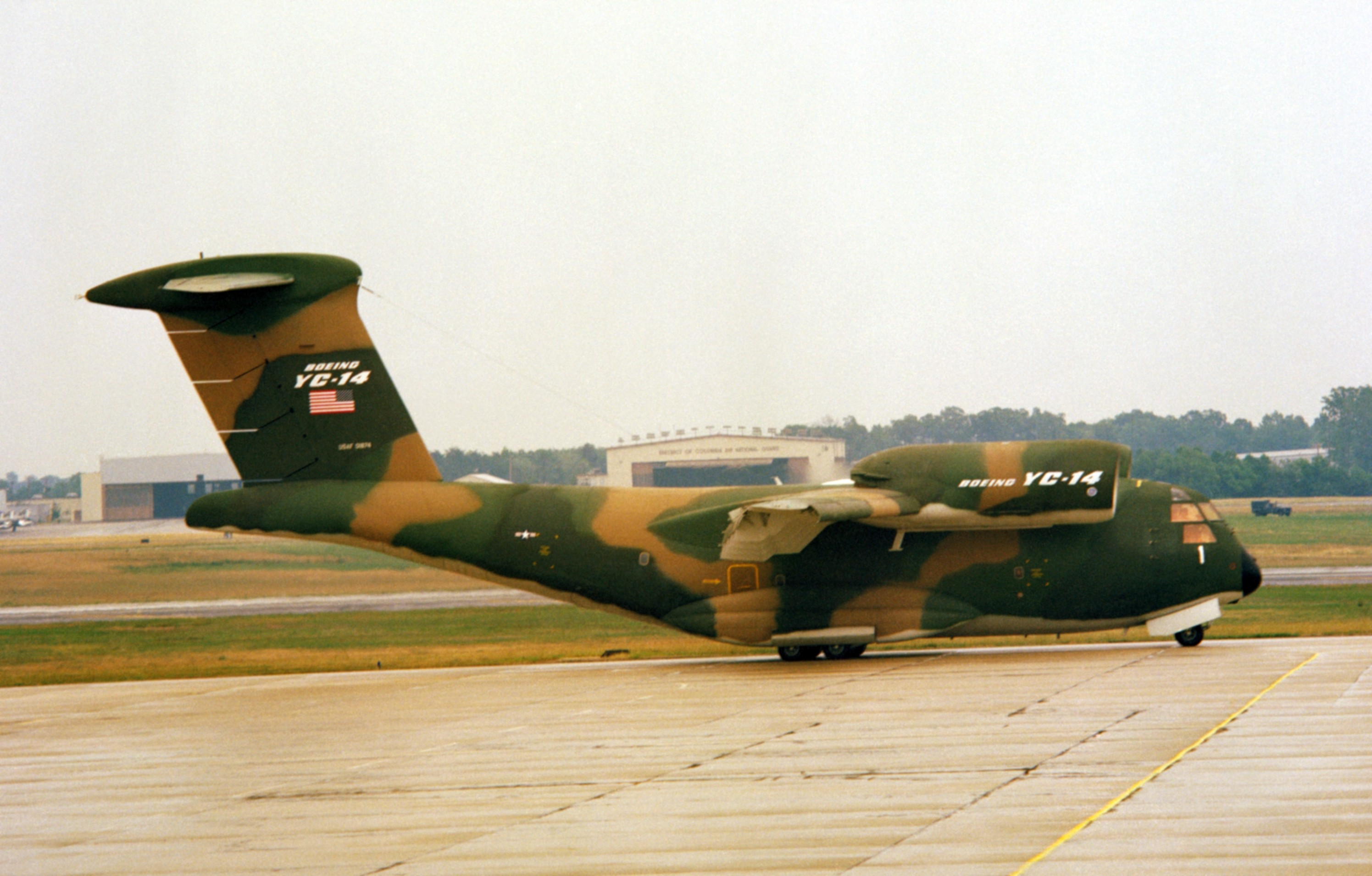 A U.S. Air Force Boeing YC-14A-BN aircraft (s/n 72-1874) parked on the flight line at Andrews Air Force Base, Maryland (USA), on 1 January 1976. This aircraft was retired to the AMARC as CW0001 on 1 April 1980, and was still on the inventory in 2008.